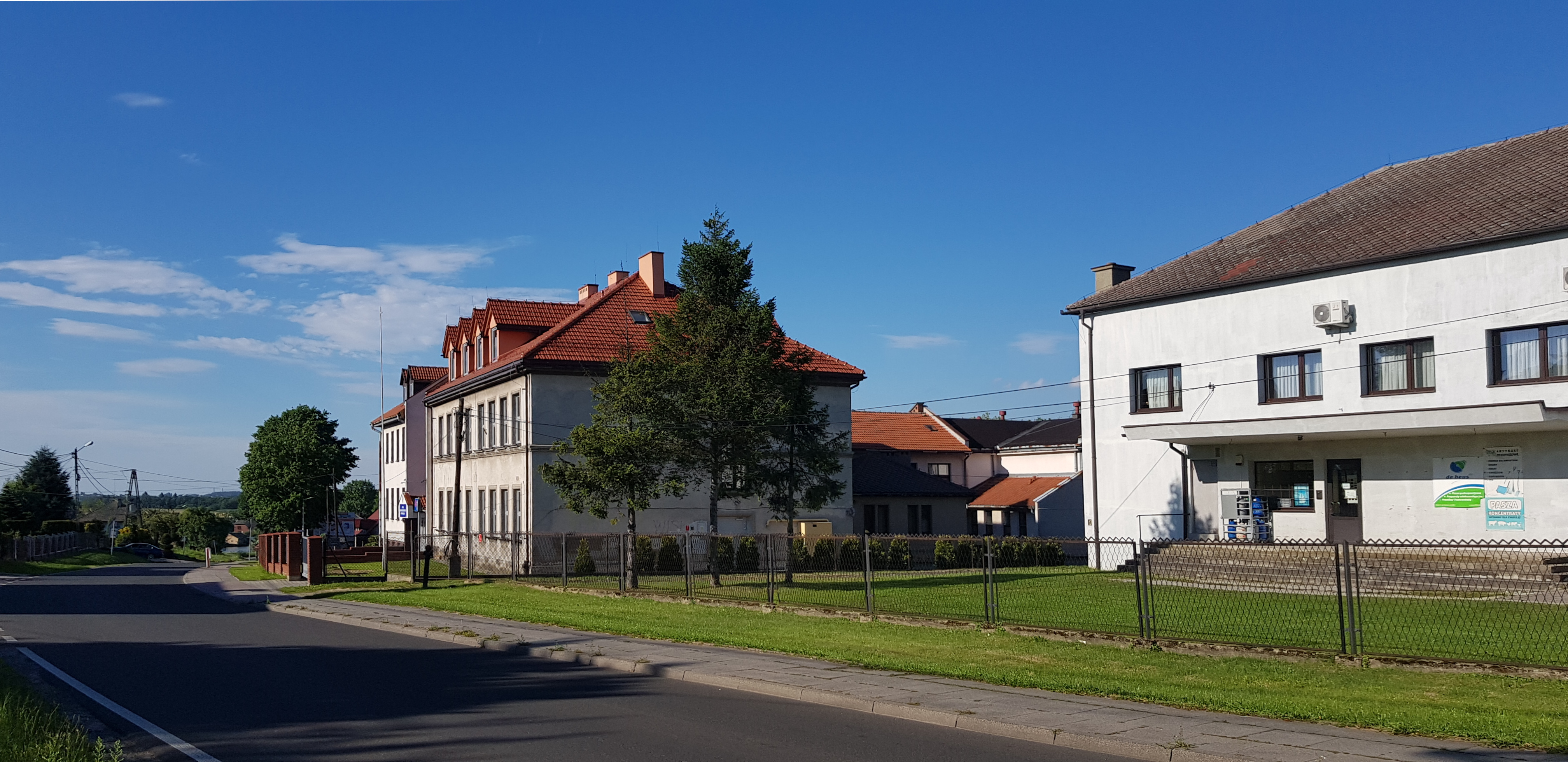 School building in the centre of Witkowice